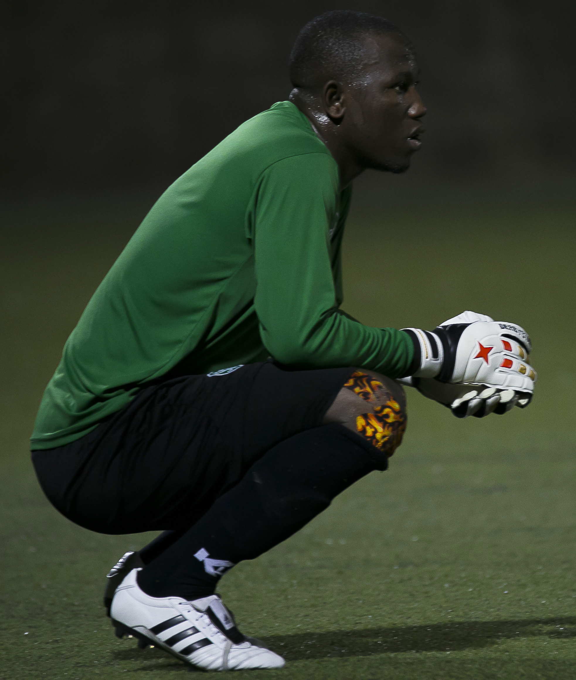 Nicaragua vs Surinam 1-0